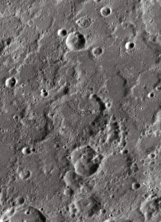 Pontanus lunar crater as seen from Earth with satellite craters labeled